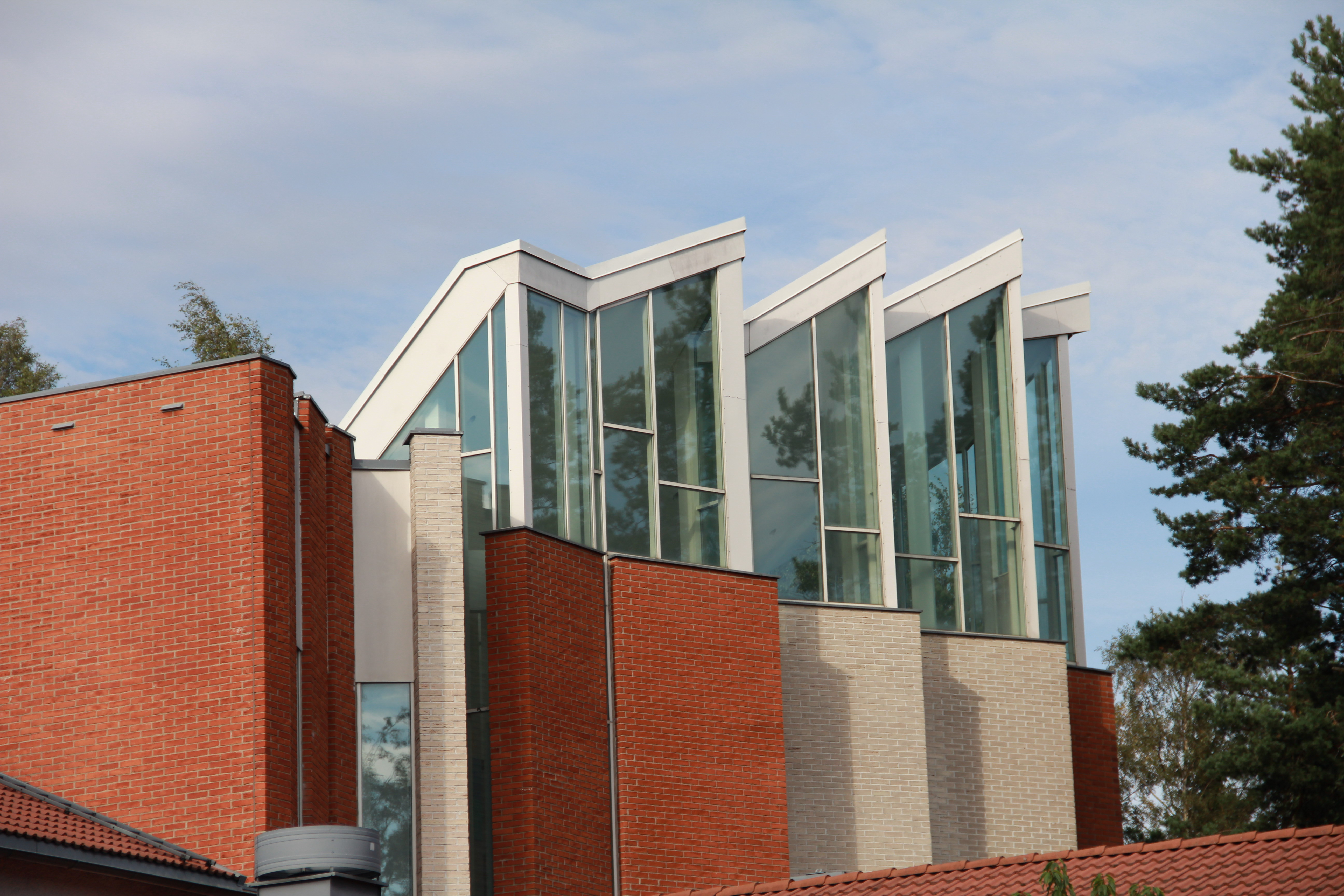 Church of the Good Shepherd in Helsinki, Finland. Completed in 2002, extension designed by architect Juha Leiviskä. Upper windows of the new church hall.